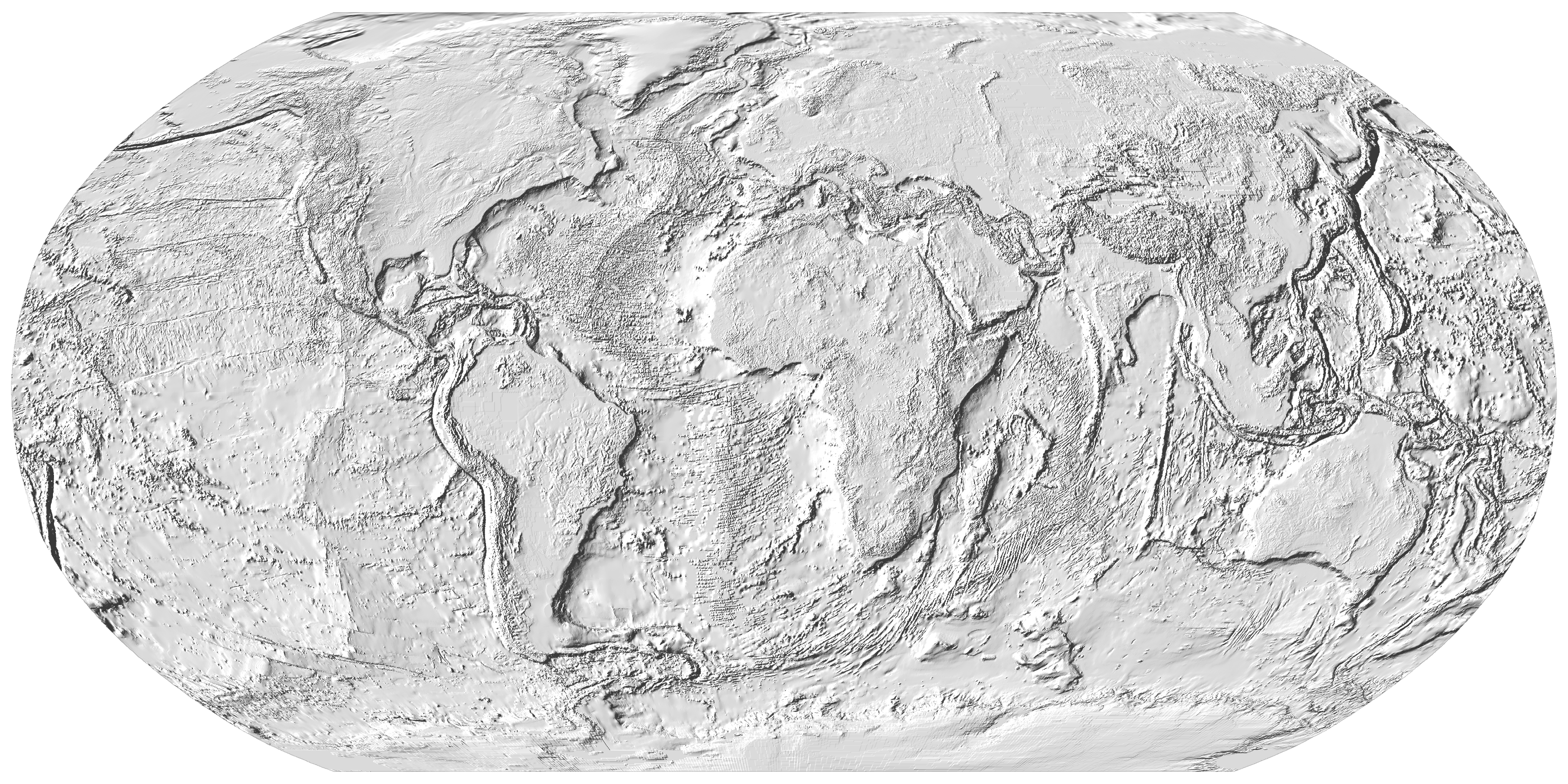 Image of the earth form